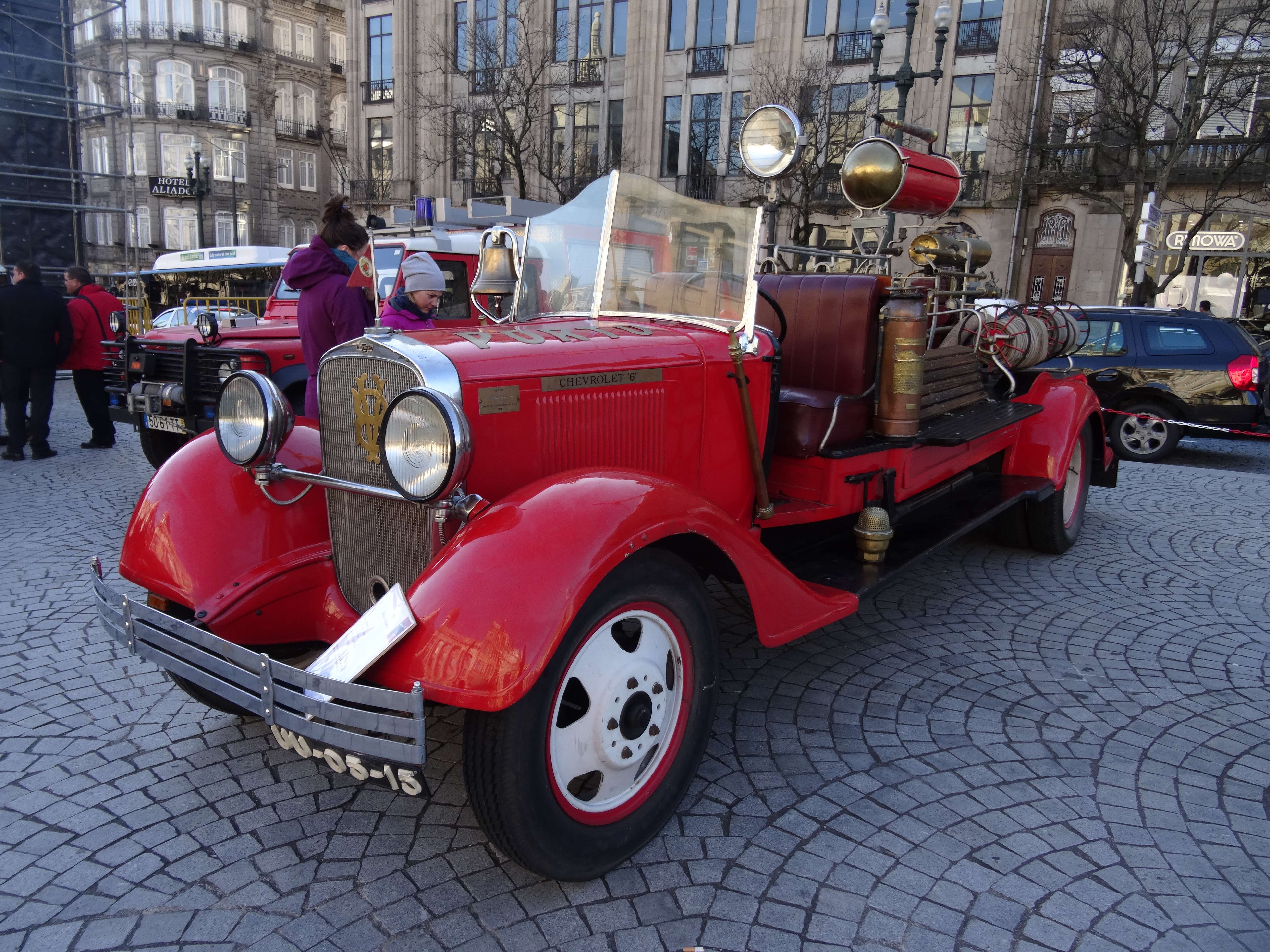 Chevrolet 1929 voluntary firebrigade in Porto